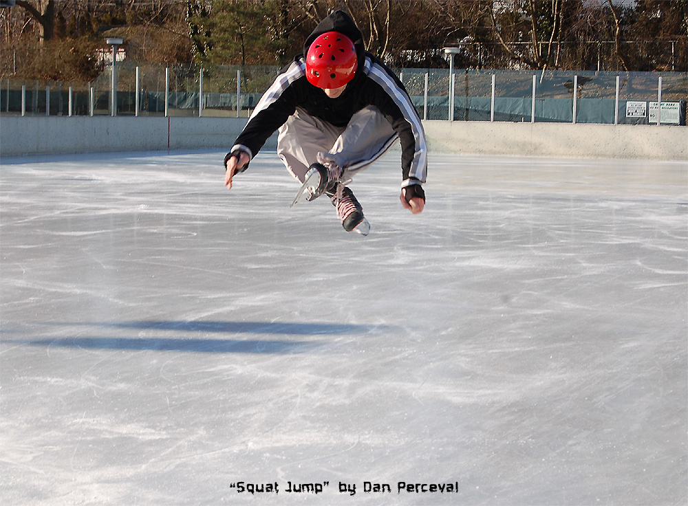 This picture is of Dan Perceval doing the "Squat Jump" in the sport Xtreme Ice Skating in 2006.